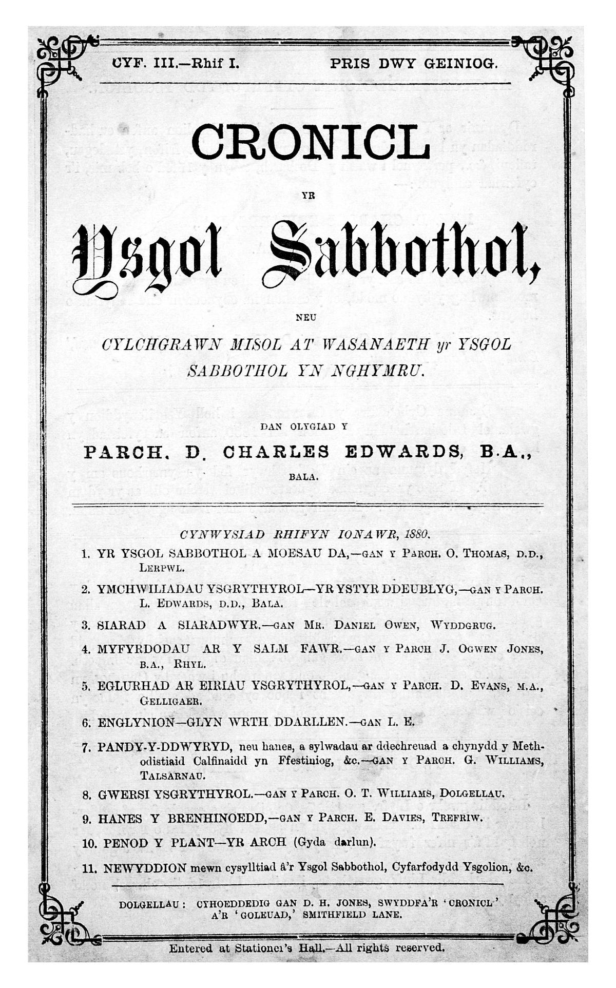 A monthly Welsh language religious periodical serving the Sunday schools of the Calvinist Methodist denomination. The periodical's main contents were religious articles, news regarding the Sunday schools and music. The periodical was jointly edited by John Evans and John Jones until November 1879, by David Charles Edwards (1826-1891) until December 1881, and by Evan Davies between August 1883 and February 1884. The musician David Jenkins (1848-1915) served as music editor between 1880 and 1884.